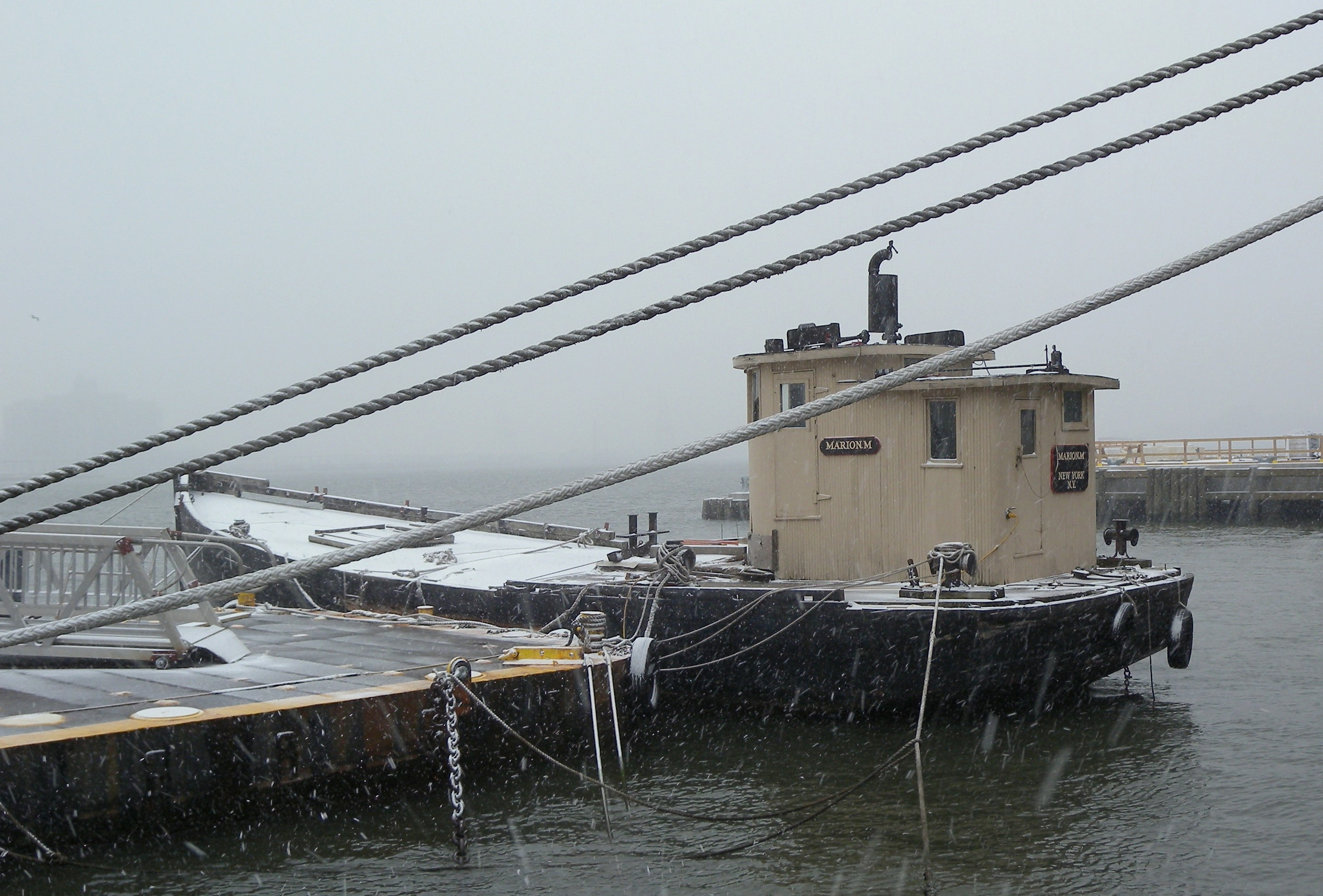 Looking south at chandlery lighter Marion M. early in the snowstorm. Ropes are securing the Peking. Career